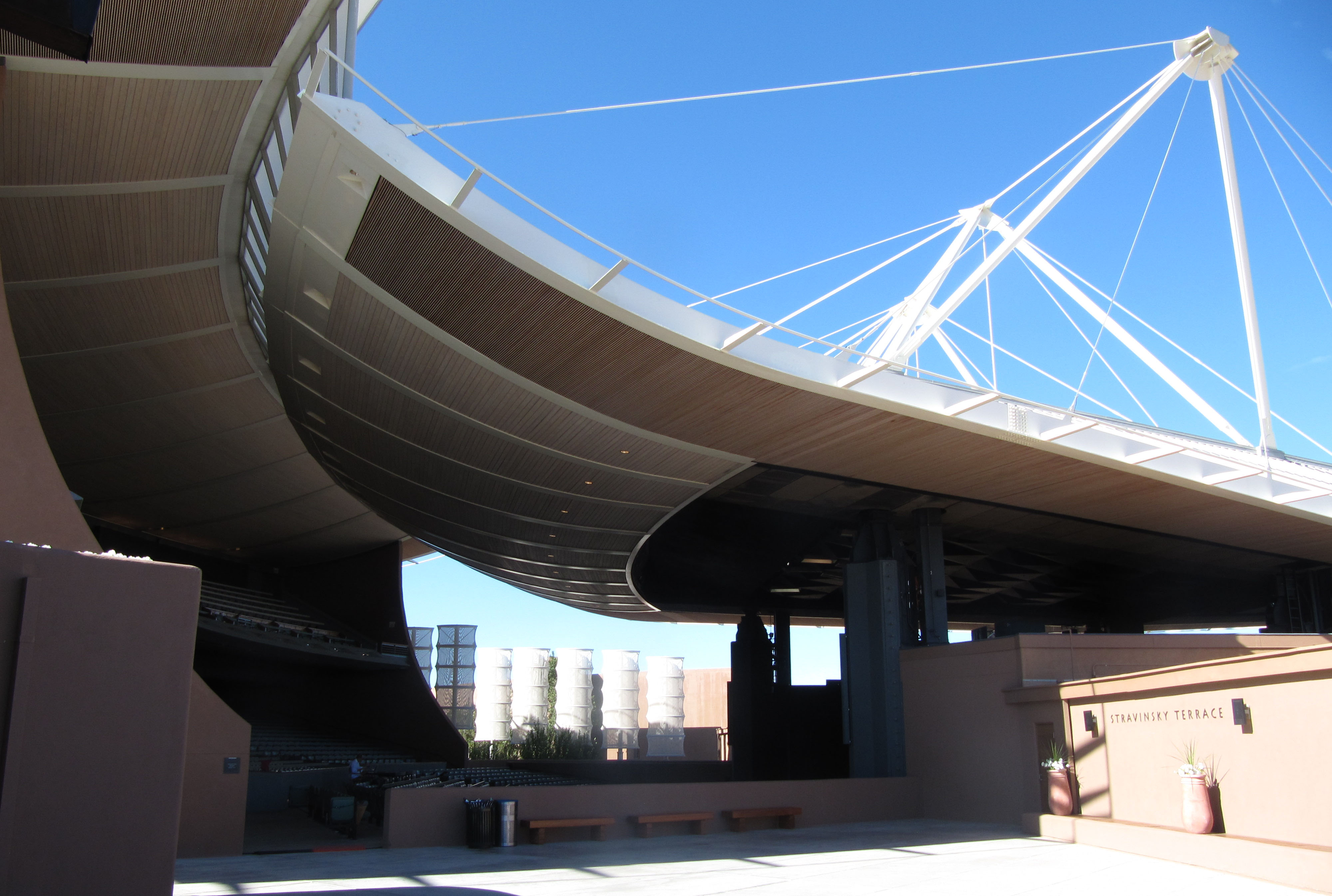 The Crosby Theatre at The Santa Fe Opera looking south/southwest from the Stravinsky Terrace